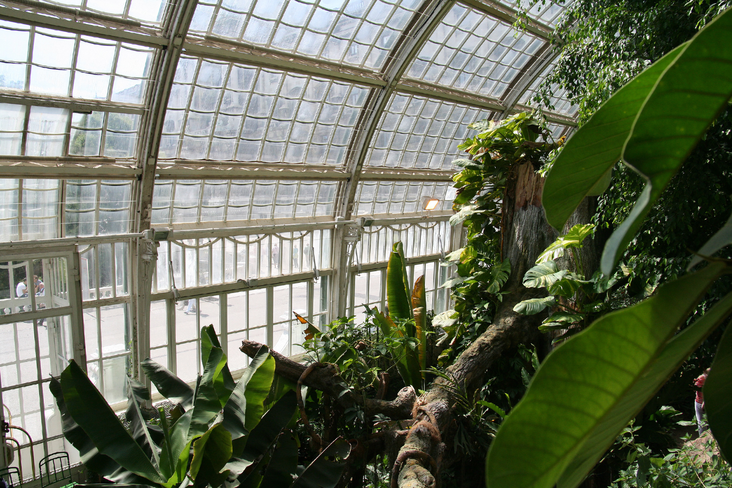 The butterfly zoo inside the Palmenhaus at Burggarten in Vienna.